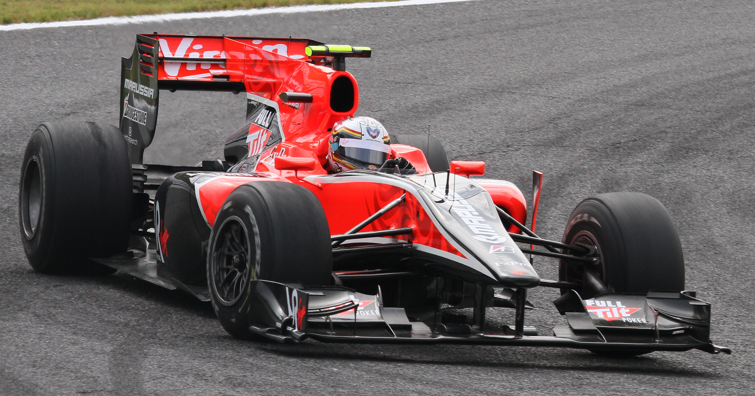 Formula One 2010 Rd.16 Japanese GP: Jérôme d'Ambrosio (Virgin) during Friday 1st Free Practice session as team's test driver.